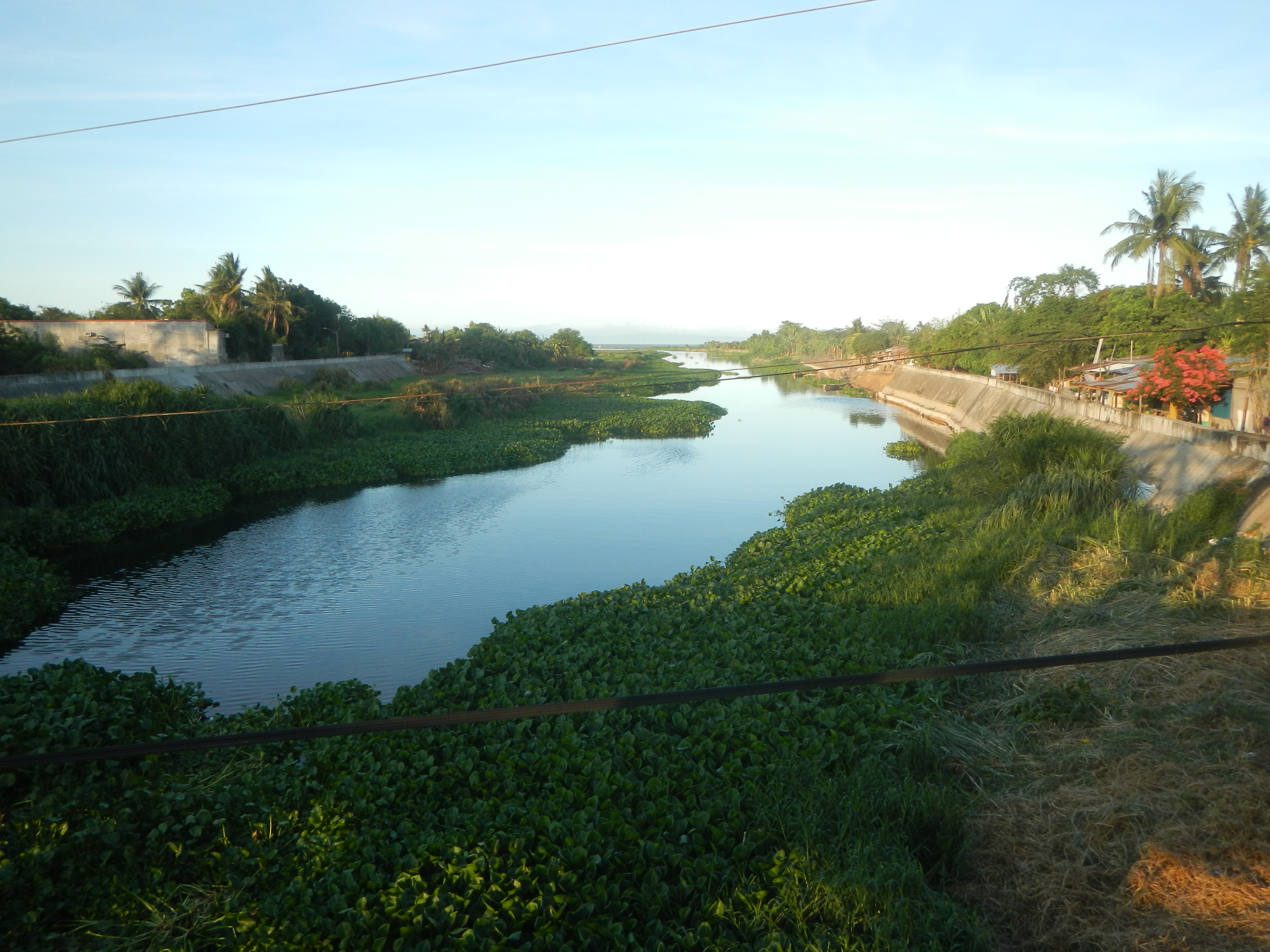 Looc-Uwisan Bridge, Calamba City San Juan River (Calamba) Flores de Mayo May devotions to the Blessed Virgin Mary Uwisan-Looc Road Flores de María (Saint Mary Magdalene Parish Church - Looc, Calamba City) Saint Mary Magdalene Parish Church (Looc, Calamba City) Vicariate of Saint John the Baptist Roman Catholic Diocese of San Pablo Looc, Calamba City San Juan, Calamba City Barangays Looc 14°13'36"N 121°10'51"E Uwisan 14°14'7"N 121°10'29"E Calamba, Laguna Maharlika Highway (Calamba City section) Pan-Philippine Highway (Note: Judge Florentino Floro, the owner, to repeat, Donor Florentino Floro of all these photos hereby donate gratuitously, freely and unconditionally Judge Floro all these photos to and for Wikimedia Commons, exclusively, for public use of the public domain, and again without any condition whatsoever).